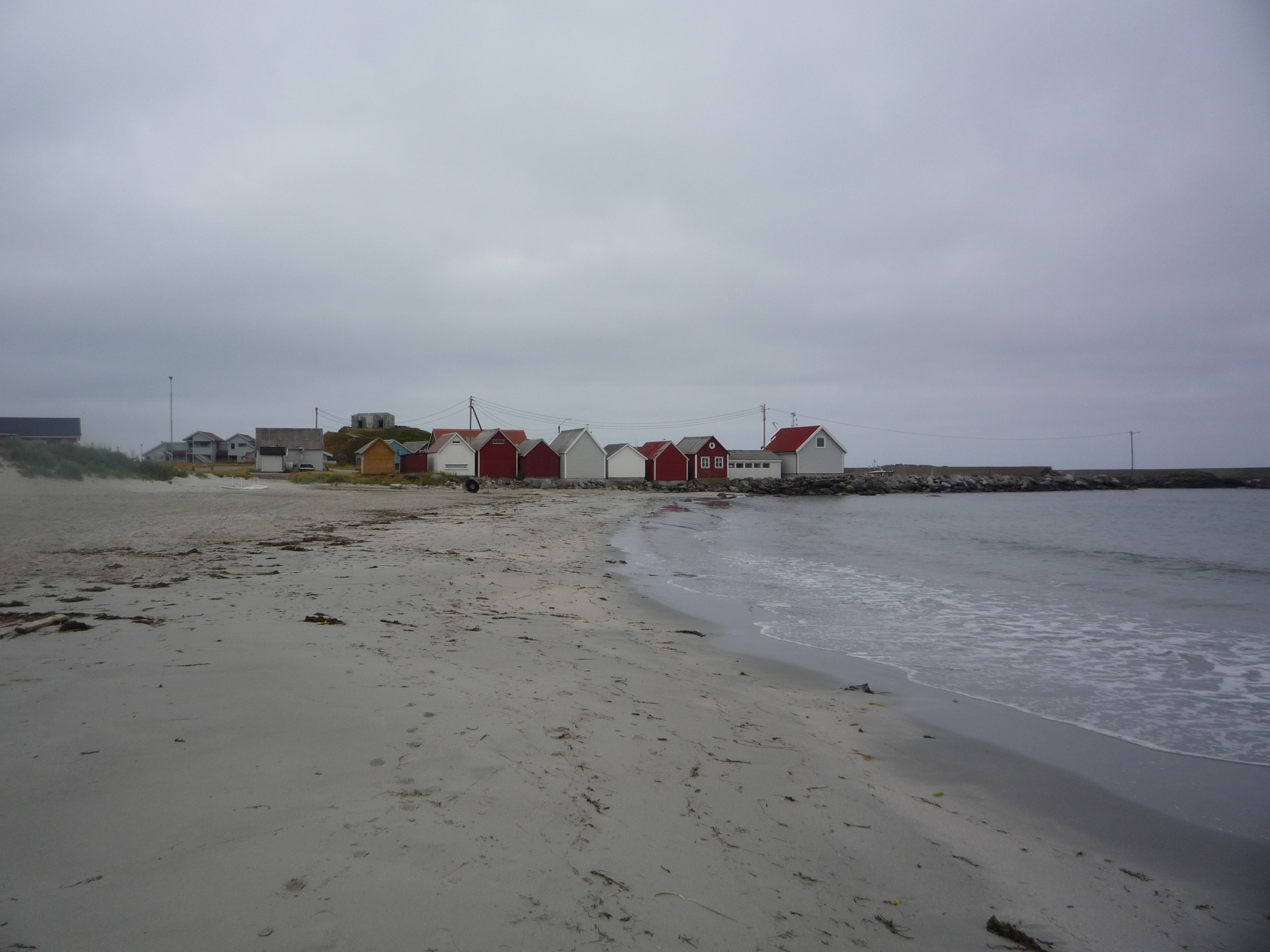 Ølbergstranda in Sola, Norway.